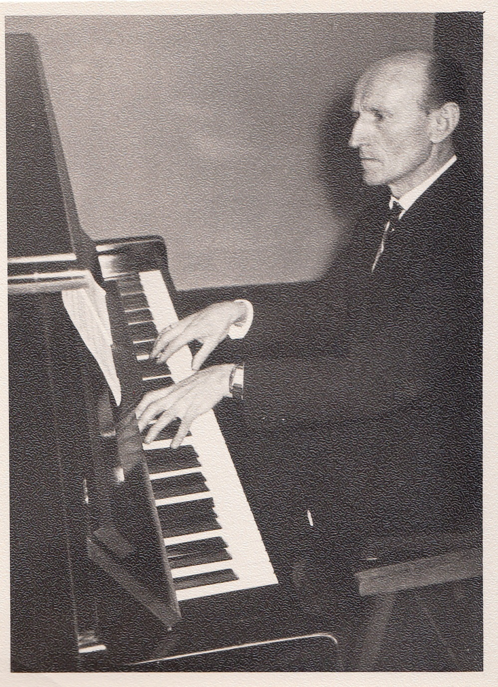 Antanas Pocius playing the piano, ca 1970